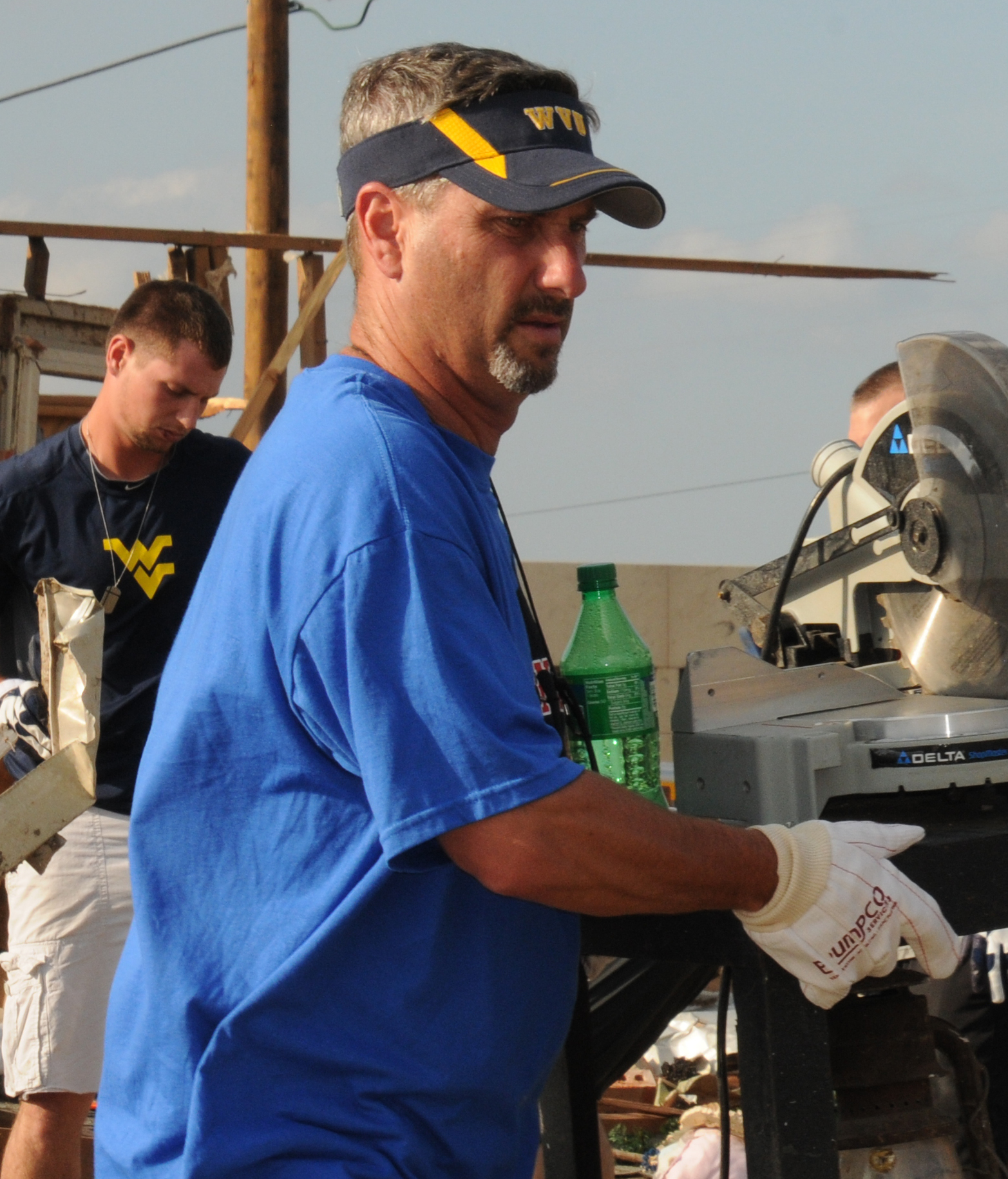 Moore, OK, May 25, 2013 -- Coach Randy Mazey (left), Jared Hill, and Max Nogay of the West Virginia University Baseball team, are assisting a storm survivor with debris removal. The team is here for the Big 12 Conference tournament and decided to help in the recovery effort. Volunteers are important FEMA partners in disaster response and recovery from the May 20 tornado in this area. George Armstrong/FEMA